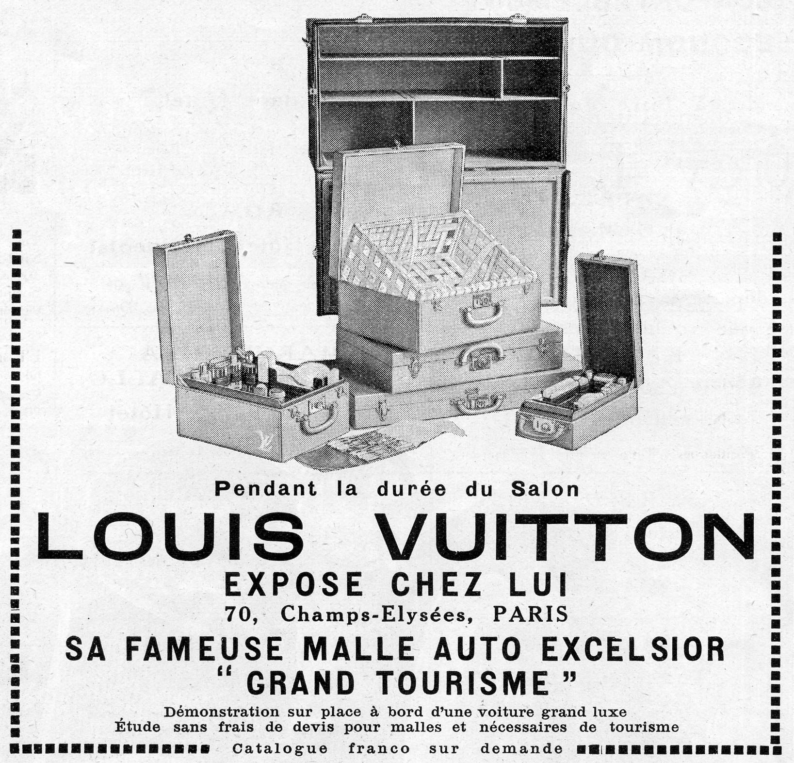 Vuitton advertisement of 1923